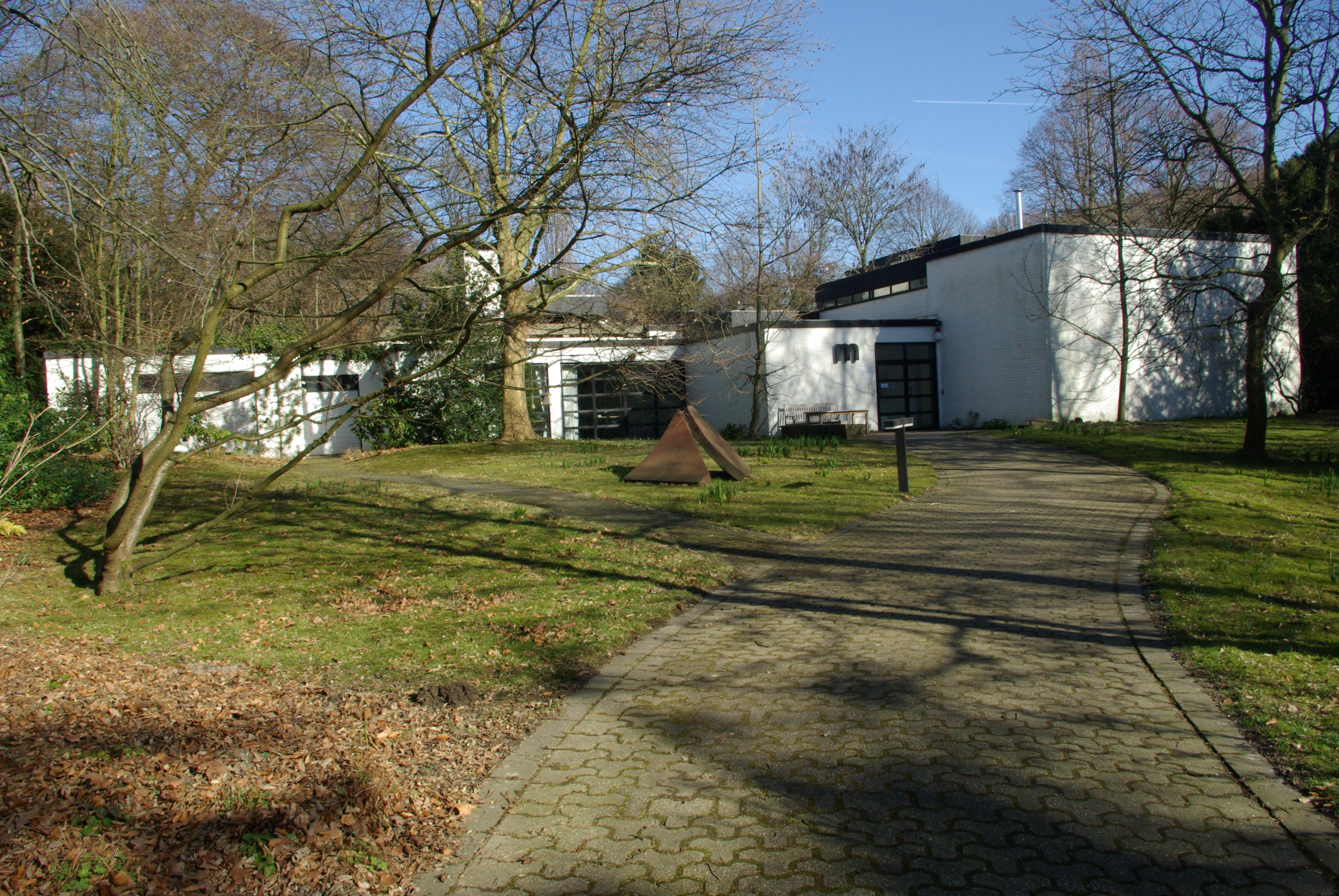 Galerie m Bochum - Exterior view